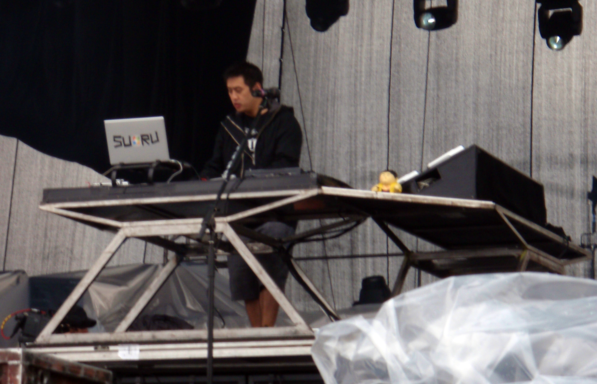 Mr. Hahn from Linkin Park performing at Sonisphere Festival in Kirjurinluoto, Pori, Finland.